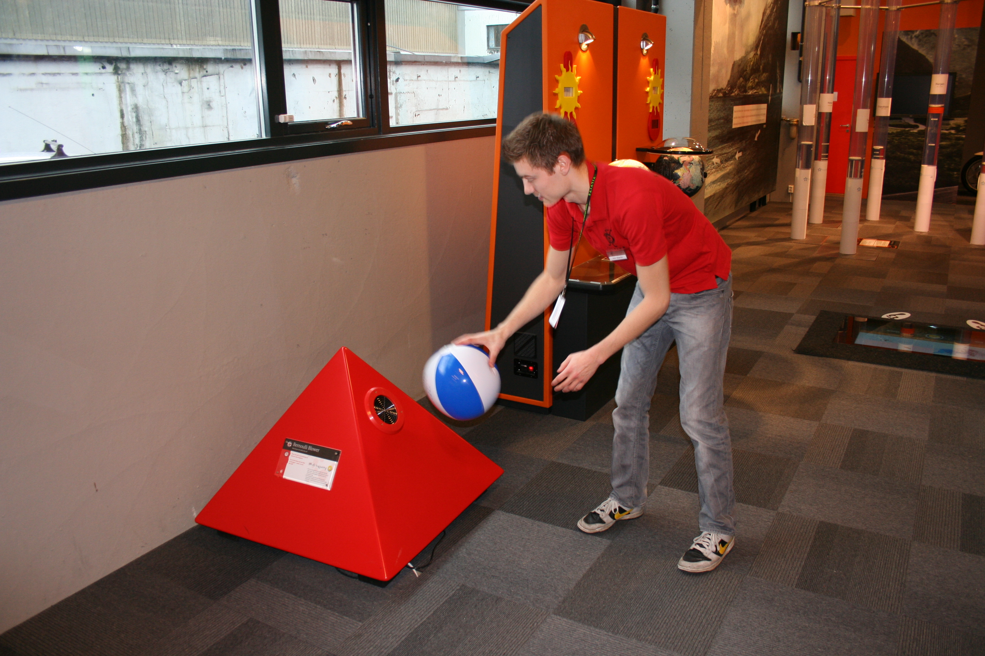 A Science Host, the 'guides' at Bergen Science Centre.